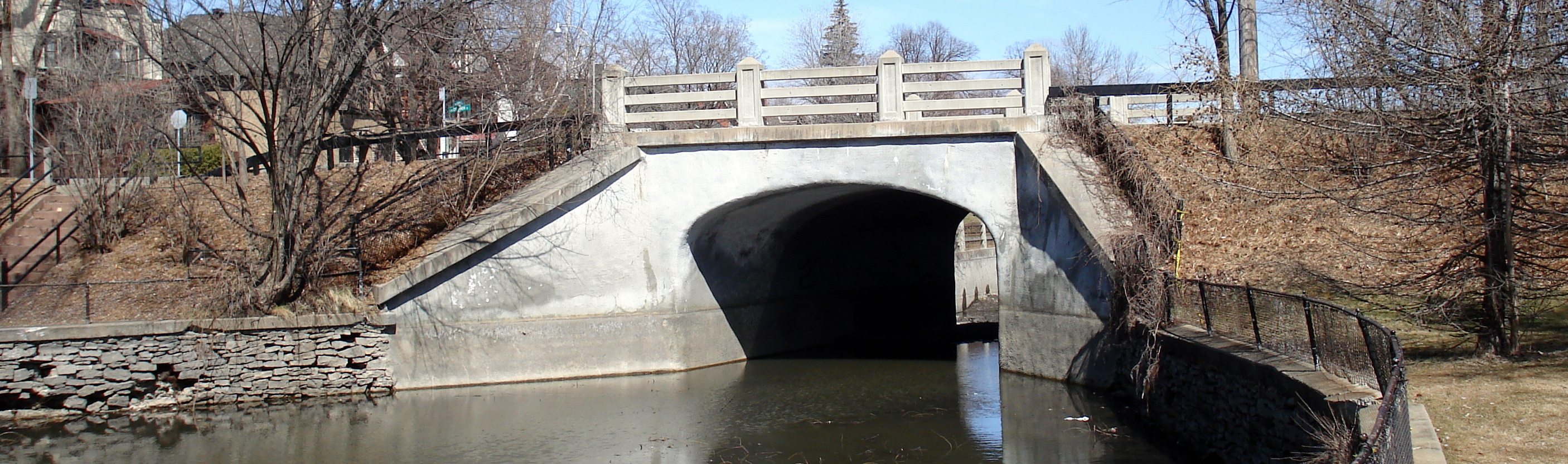 The bridge on O'Connor Street crossing Patterson's Creek in Ottawa, Canada. Designed by Francis Conroy Sullivan.